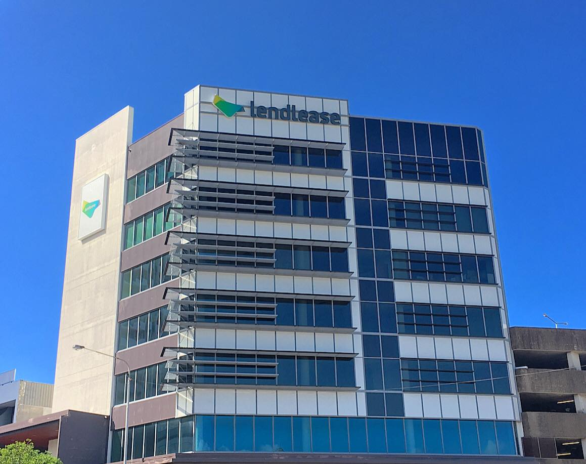 The LendLease tower in the Townsville Central Business District.